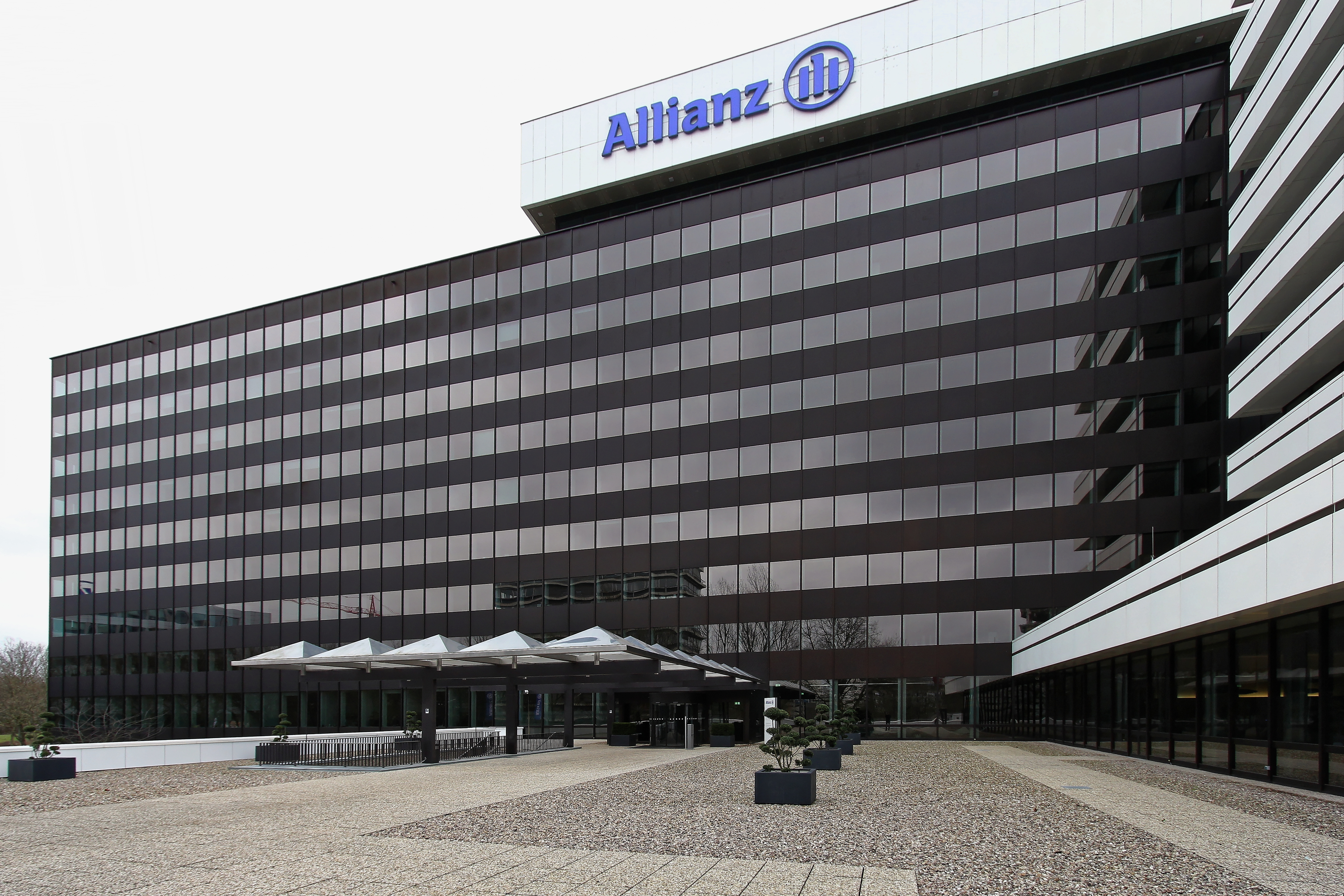 Hamburg-Winterhude, commercial area City Nord, office building Kapstadtring 2-4This is a photograph of an architectural monument.